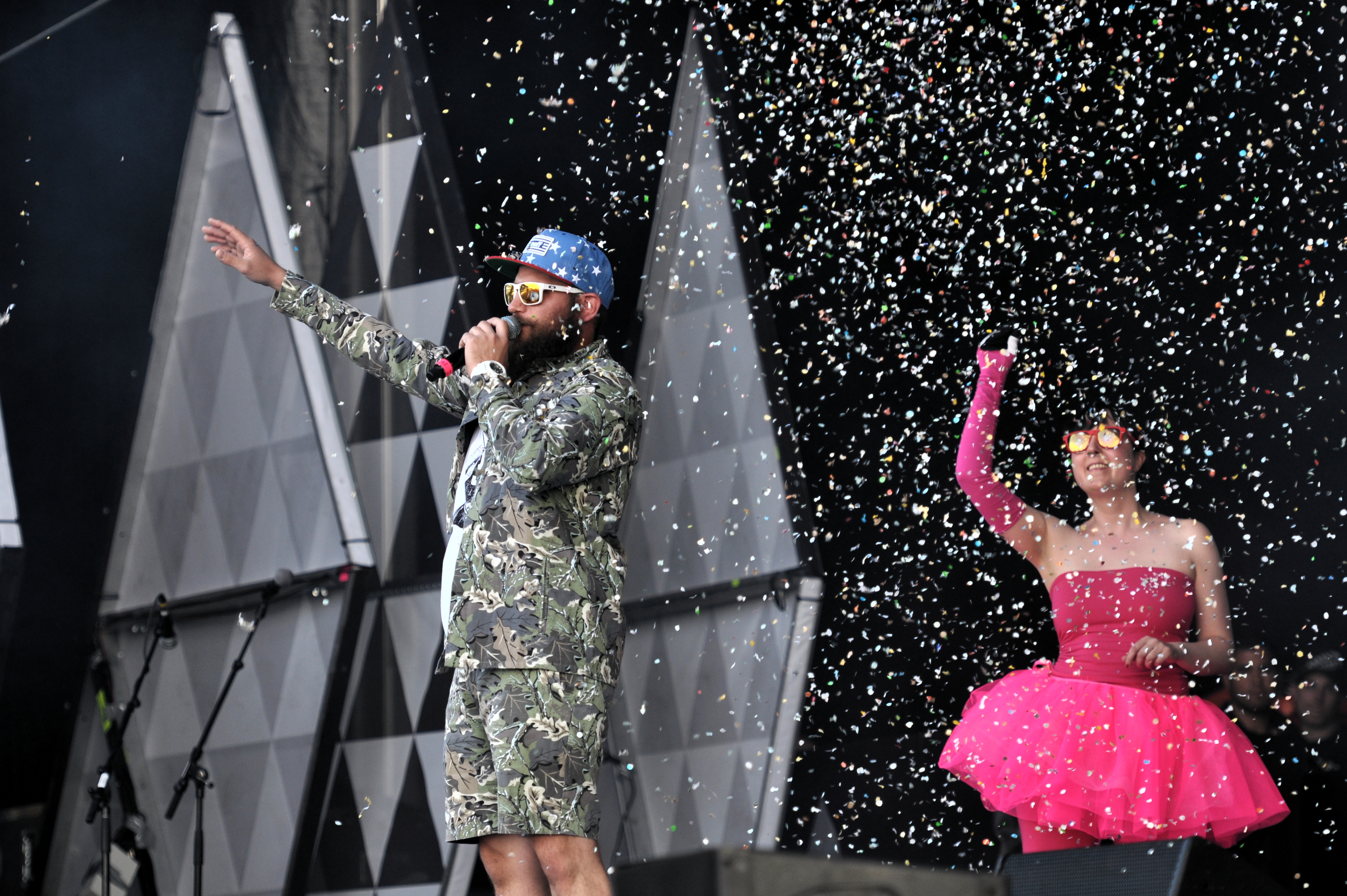 MC Fitti at Rock am Ring 2013